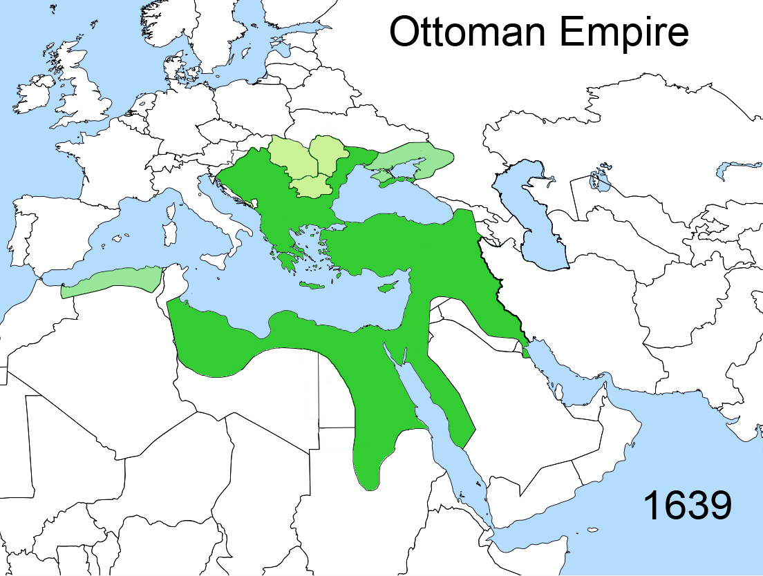 Territorial changes of the Ottoman Empire